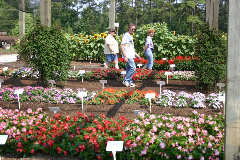 Visitors to Park Seed Company inspect AAS row trials during Field Day, Park Seed Company, Greenwood, SC